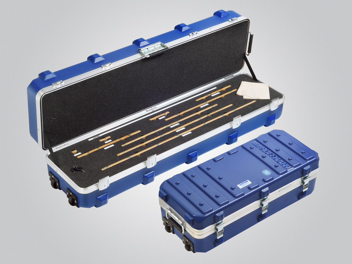 Herbert Hoffmann GmbH, Trolley model